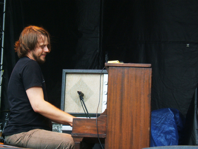 Mountain Jam 2009 - May 29, 2009 - Day 1 - Marco Benevento Trio